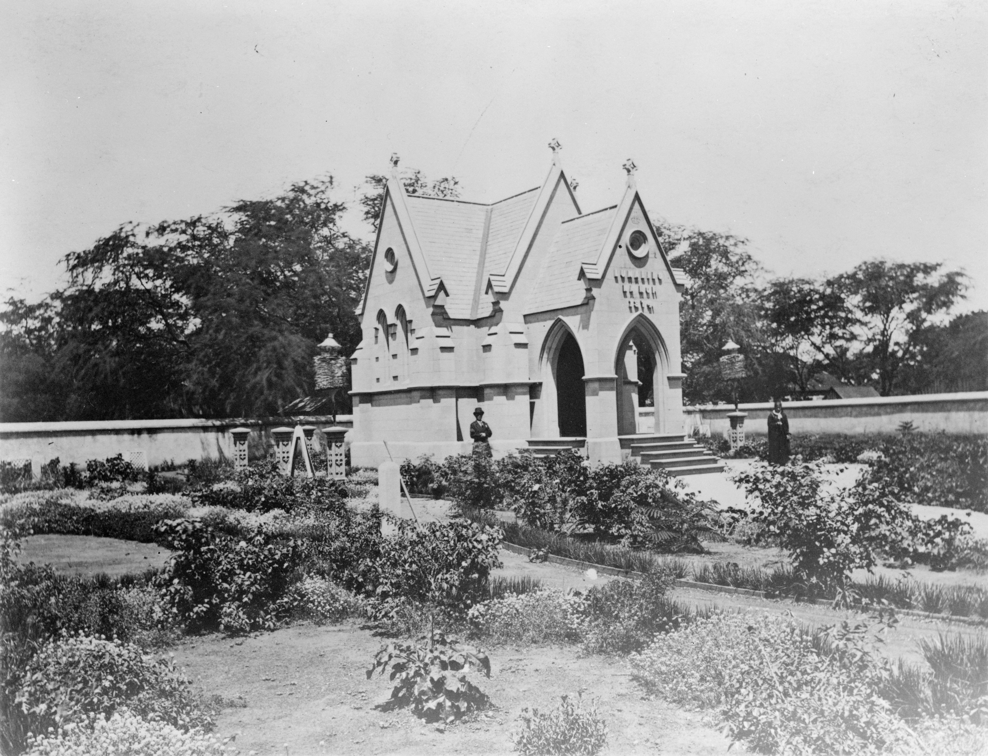 Lunalilo's Tomb, Punchbowl & King Streets (Kawaiahao Churchyard), Honolulu, Honolulu County, HI. The 1874 dating by the Library of Congress is erroneous since the Tomb wasn't competed until November 23, 1875.